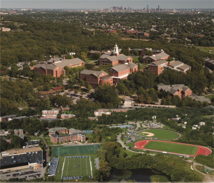 Aerial View of the Bentley University Campus.